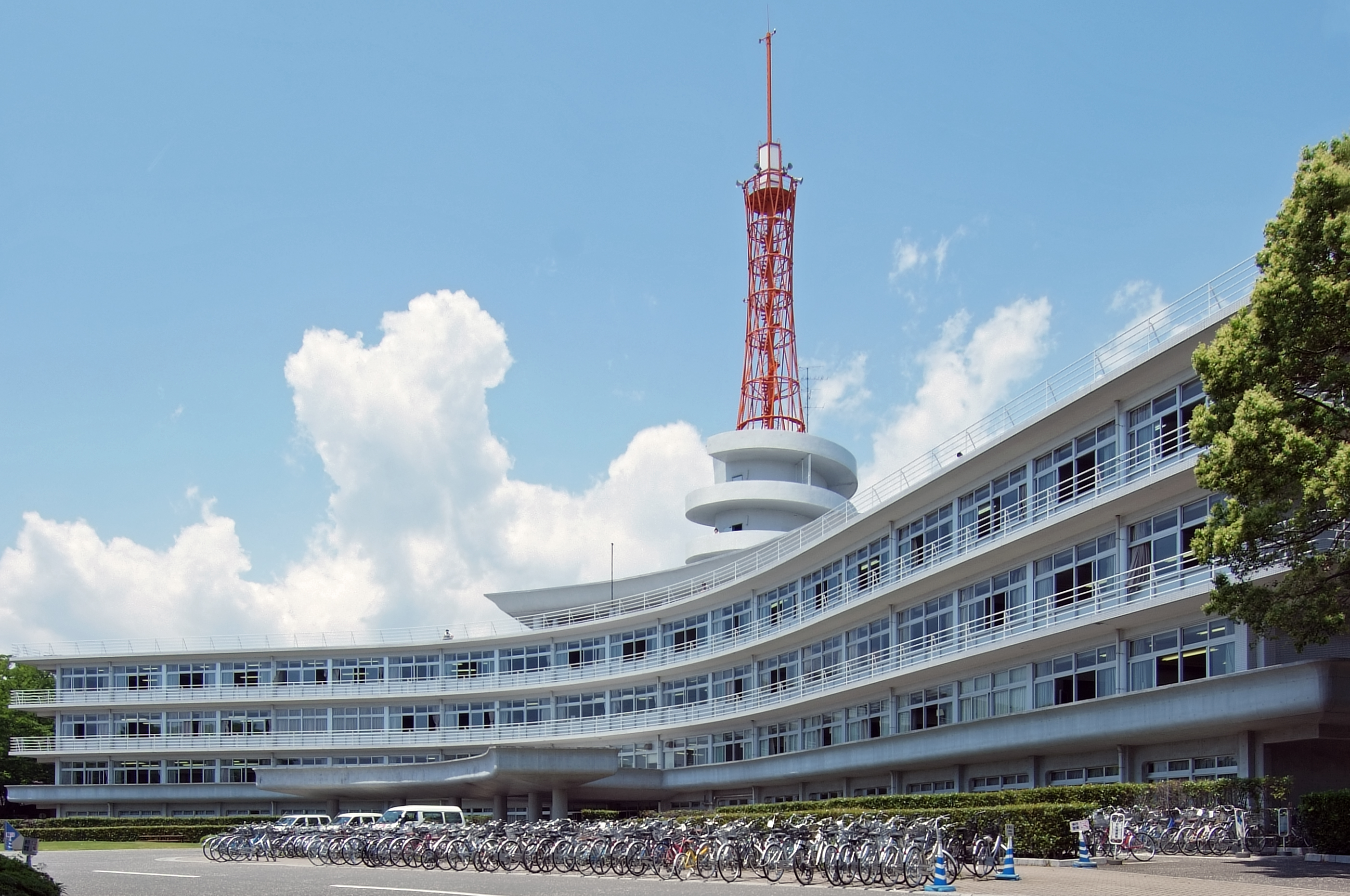 Building 1 of Tokai University Shonan Campus, at Kita-Kaname Hiratsuka Kanagawa Japan, design by Mamoru Yamada in 1963.